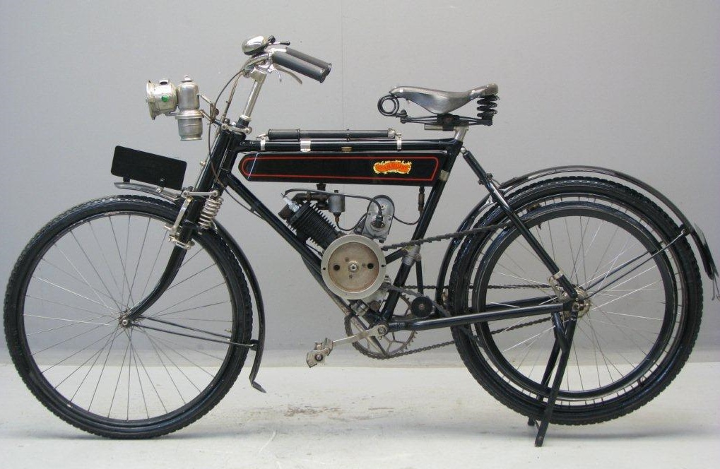 JES Model B 147 cc IOE motorcycle from around 1920